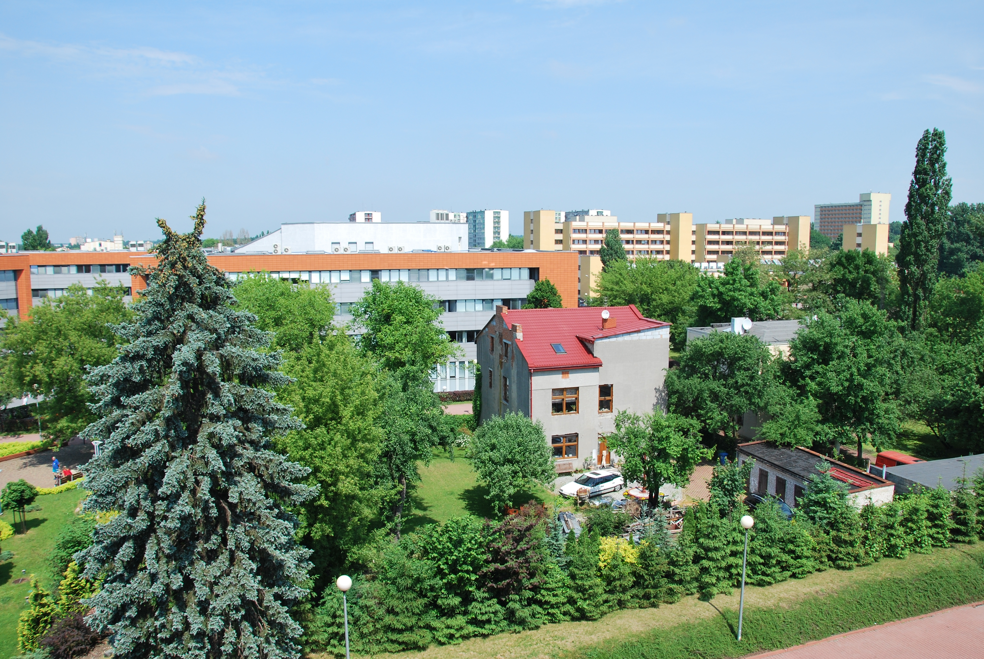 A part of campus of University of Łódź